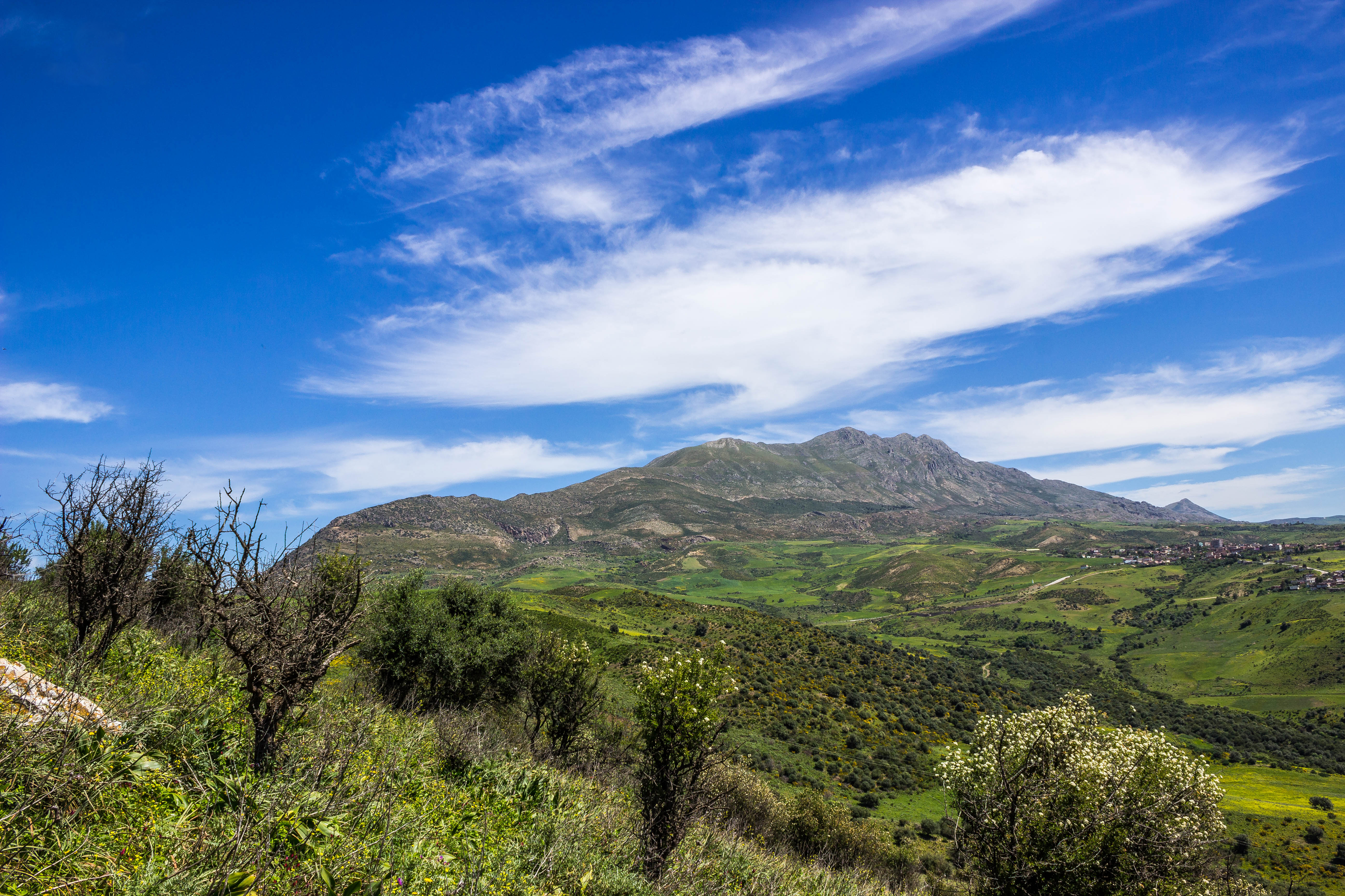 Mont Aicha at Mila Province, Algeria